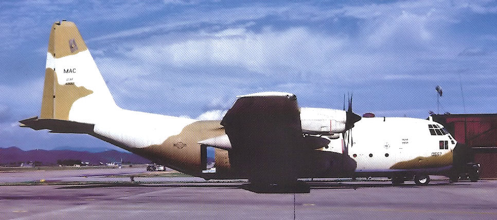 C-130E 64-0557 of the 314th TAW, Little Rock AFB, Arkansas painted in Rapid Deployment Force (RDF) liverly, 1980